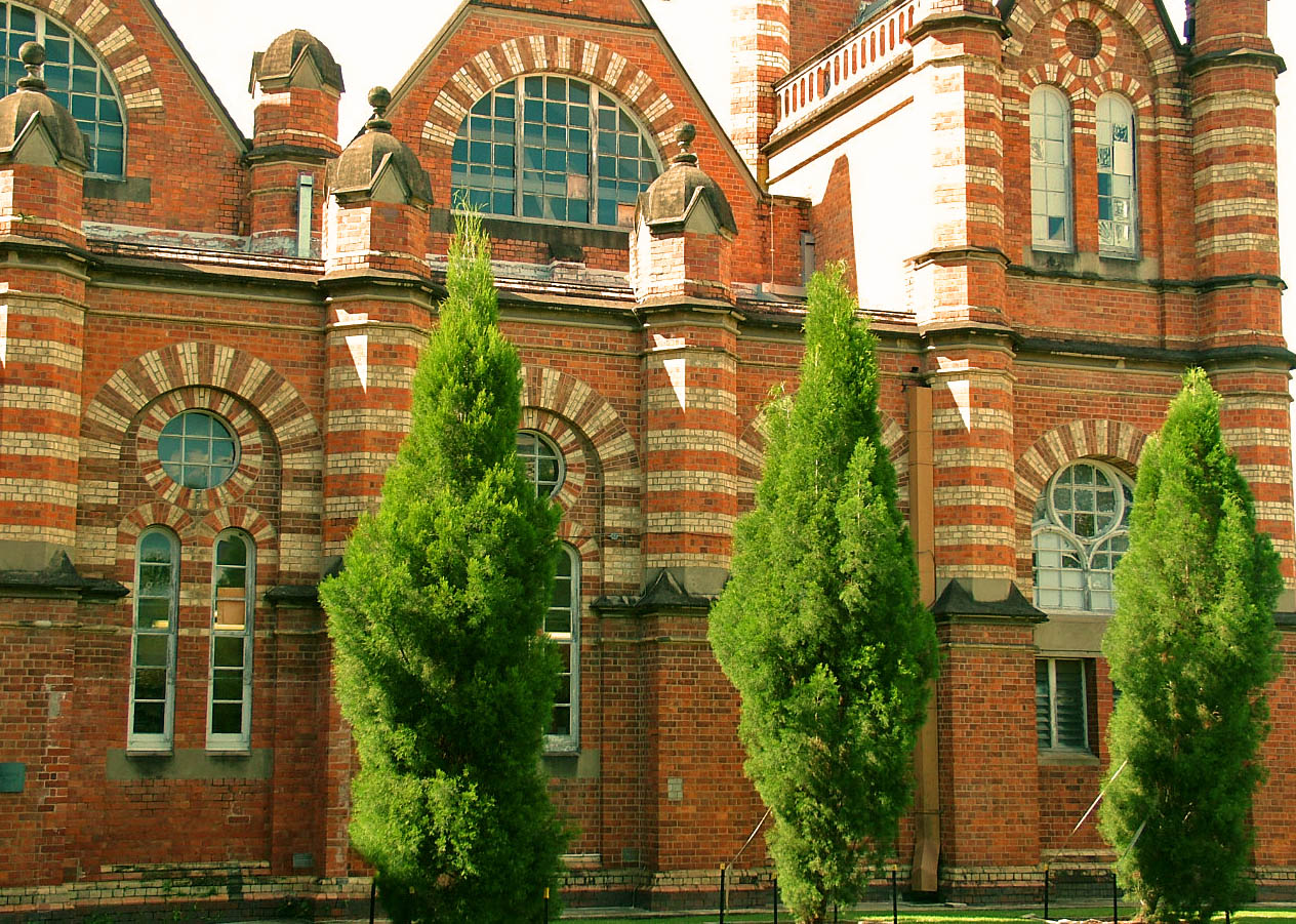 Side view of Old Museum Building, Bowen Hills, Brisbane, Qld.